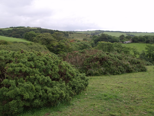 Scene east of Chyanvounder. Seen from footpath 211/7/1 as it drops through a field on its way from Chyanvounder to Cury. On the right are some of remaining buildings from an uninhabited farm. The various wooded valleys on the left are combining to form the valley shown in 474292.